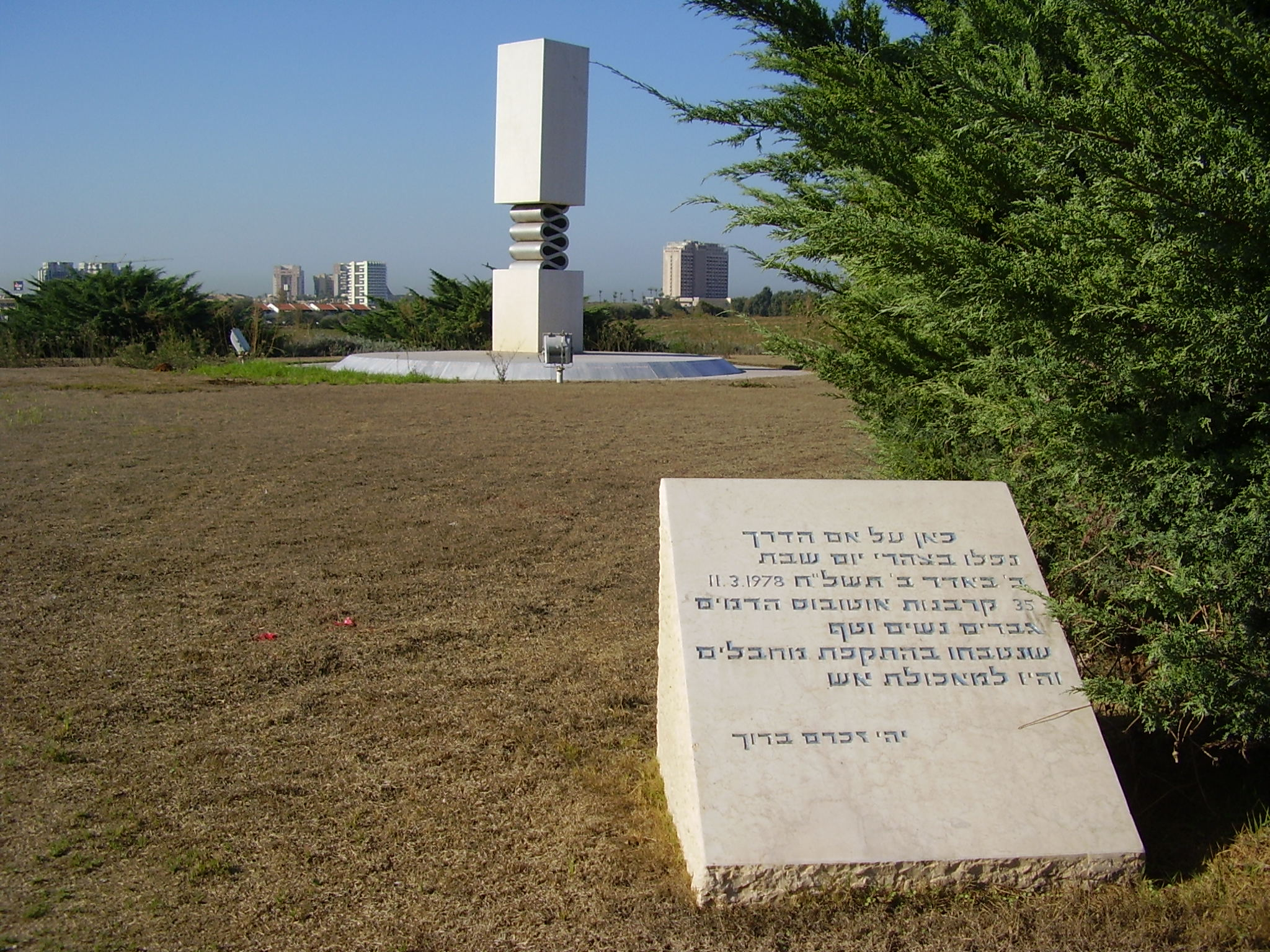 memorial to the 35 victims of the arab terrorists attack on a bus in the coastal road in 11/03/1978